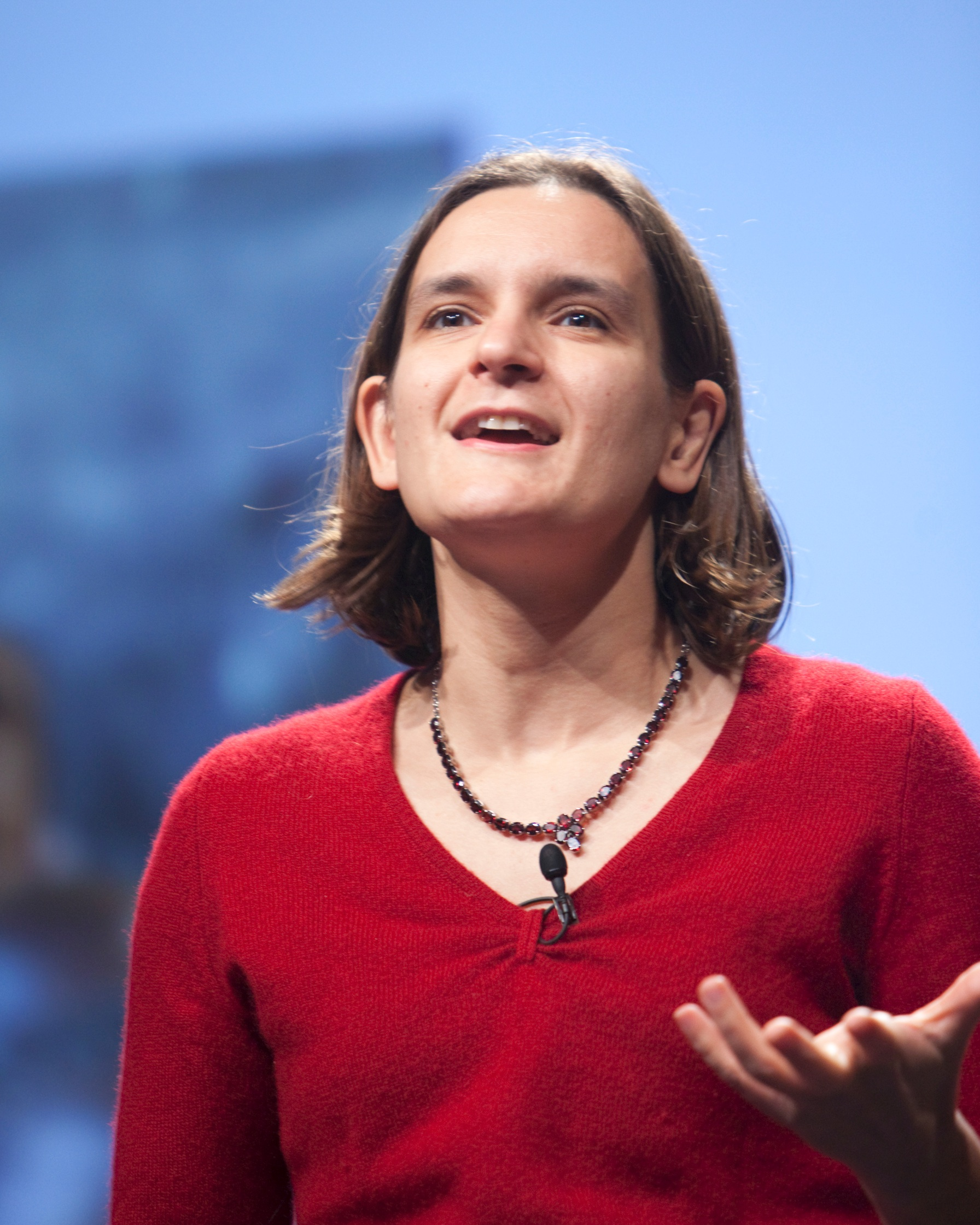 Esther Duflo at Pop!Tech 2009